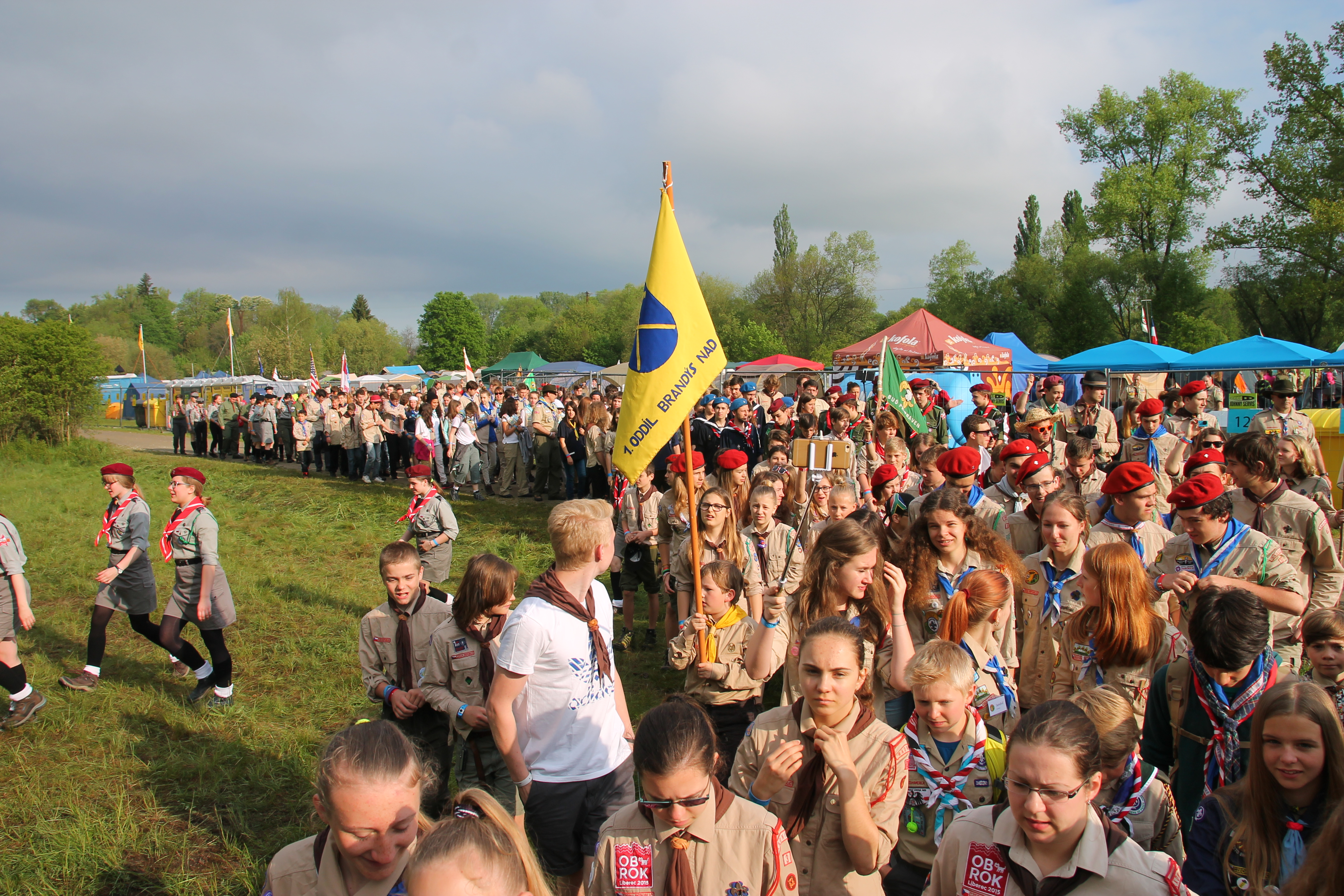 Intercamp 2016 (13.–16. 5. 2016), Josefov fortress, Jaroměře, Czech Republic, participants